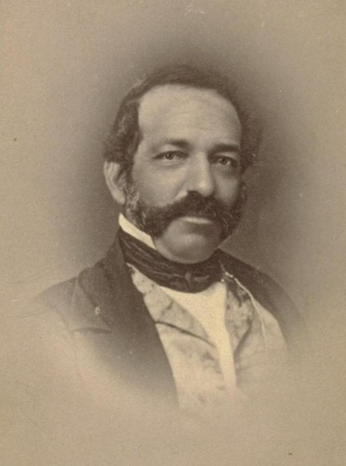 Andrés Pico (1810-1876), governor of Alta California (before California was a U.S. state) during the Mexican-American War.